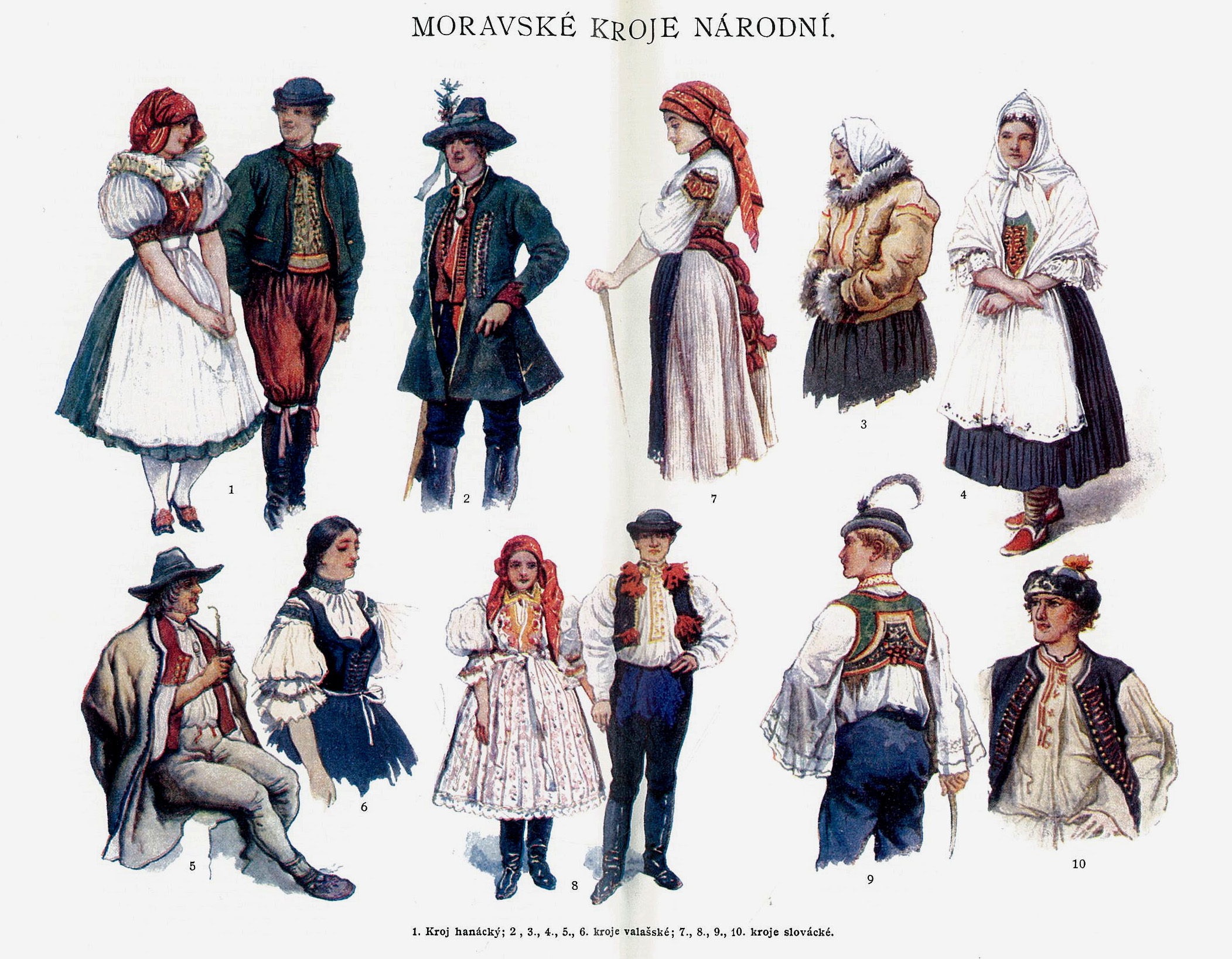 National costumes in Moravia (the Czech Republic) according to Ottův slovník naučný, 1901. 1 – national costume of the Haná region 2, 3, 4, 5, 6 – national costumes of the Moravian Wallachia (Valašsko) 7, 8, 9, 10 – national costumes of the Moravian Slovakia